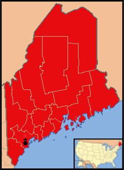 The Diocese of Portland encompasses the entire state of Maine, USA.